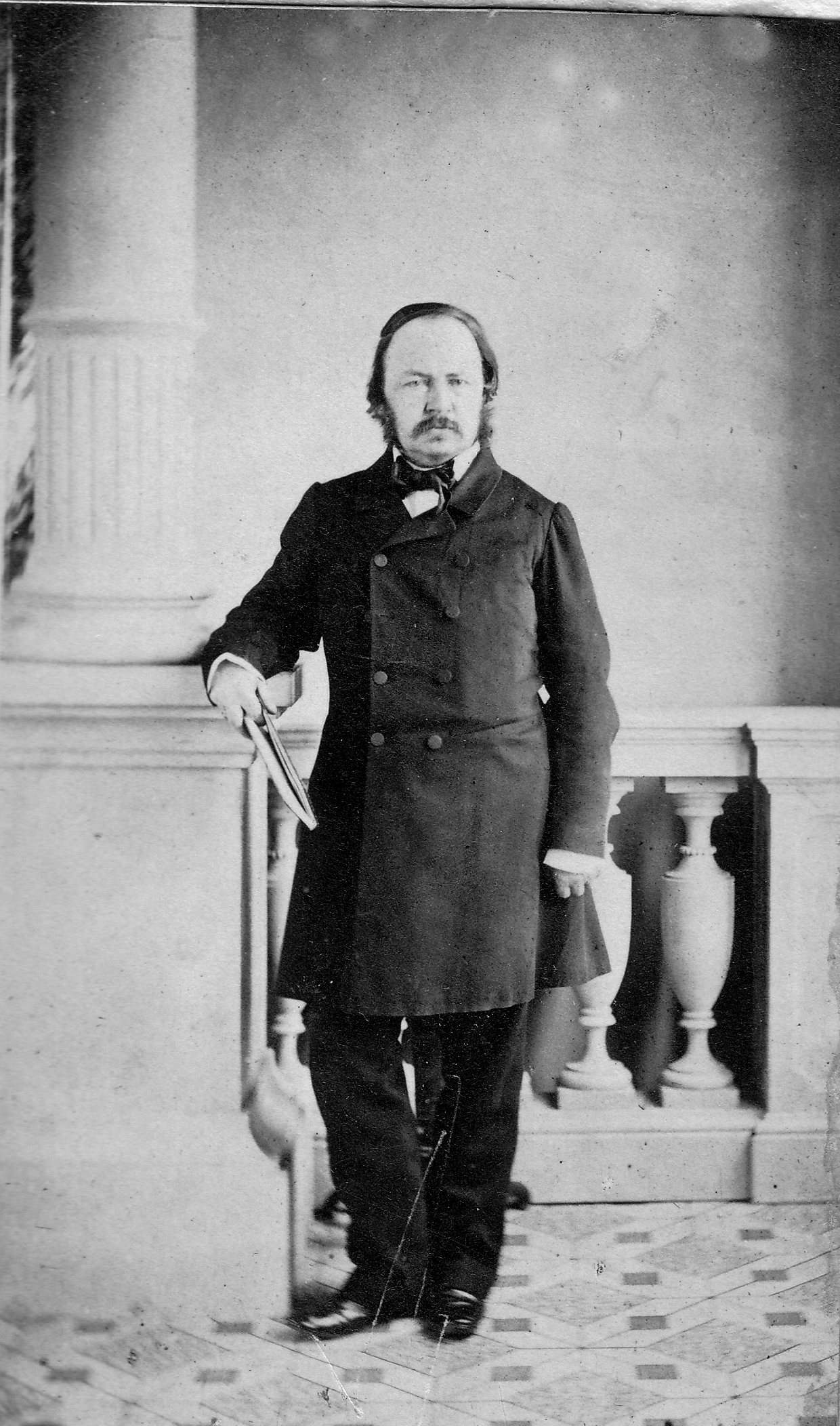 Otto von Hingenau ( 1818-1872 ), Austrian mining engineer and author.